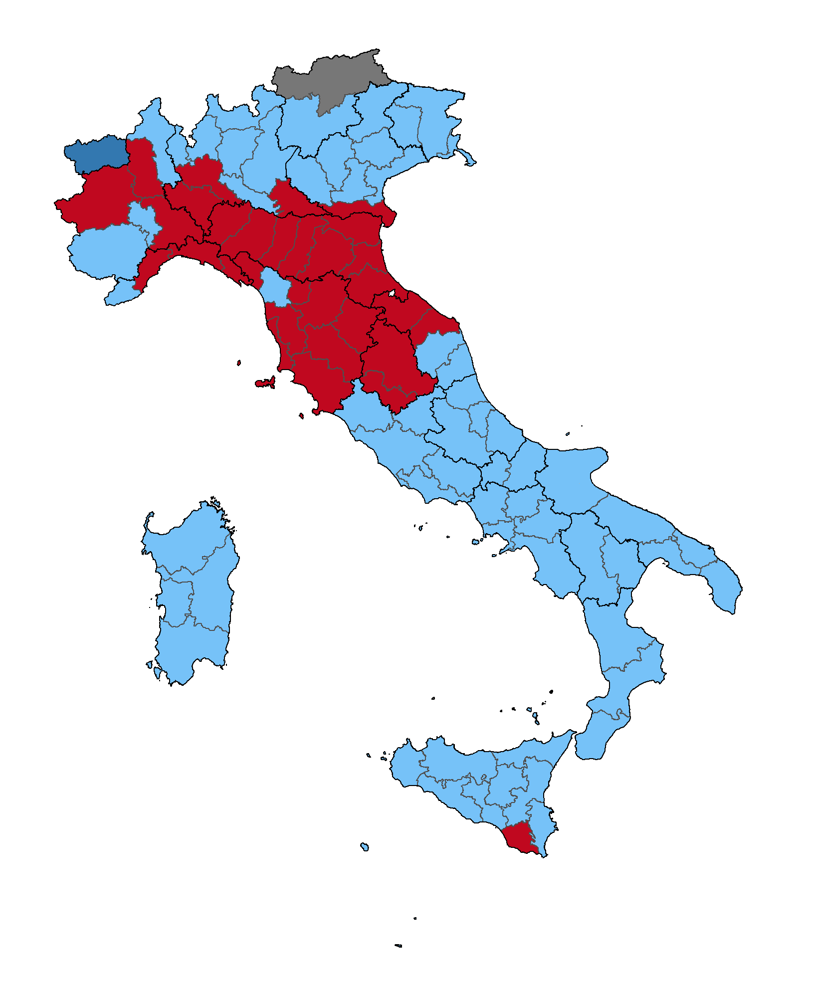 Europe